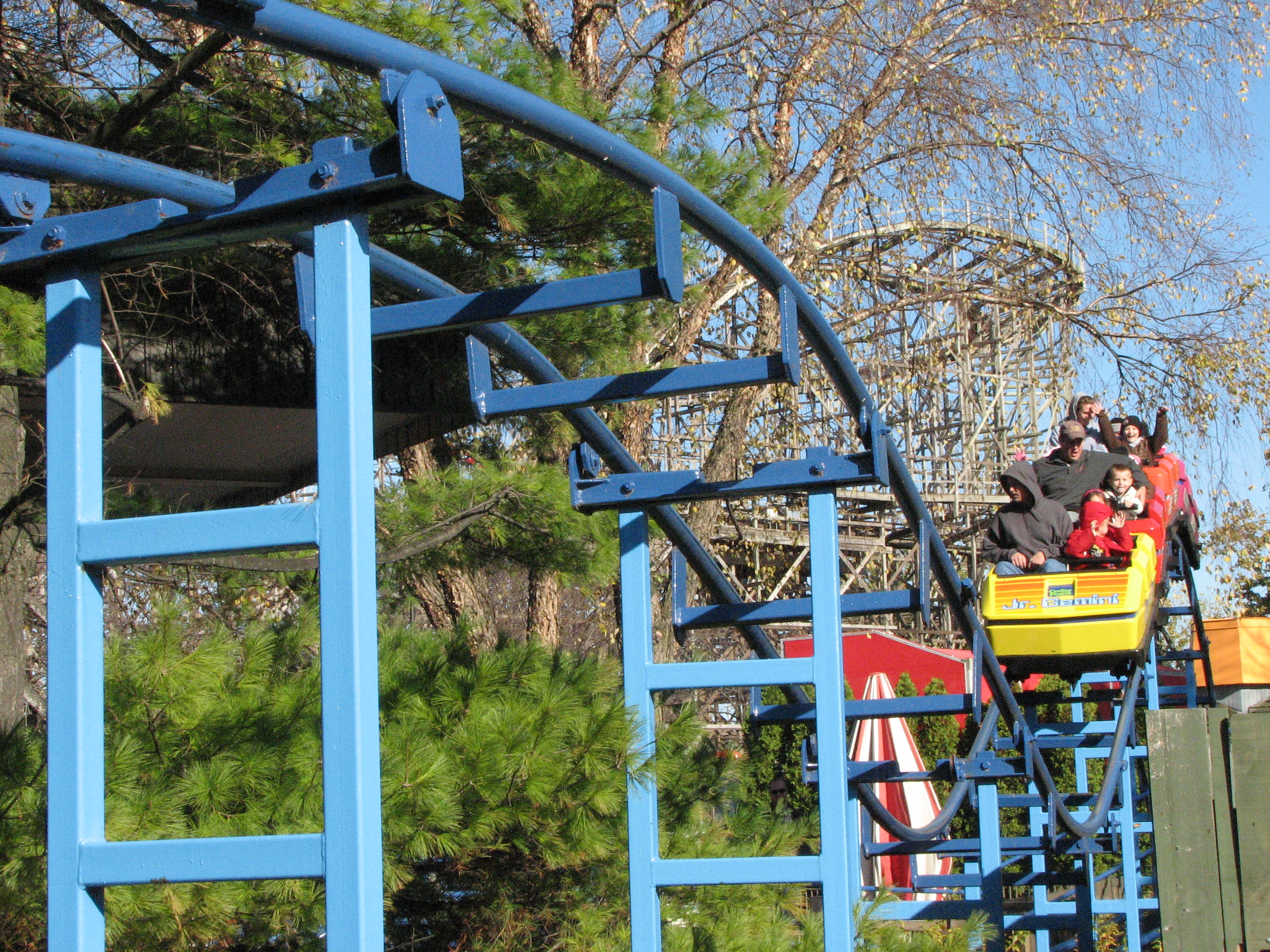 Jr. Gemini at Cedar Point, Intamin's first roller coaster.